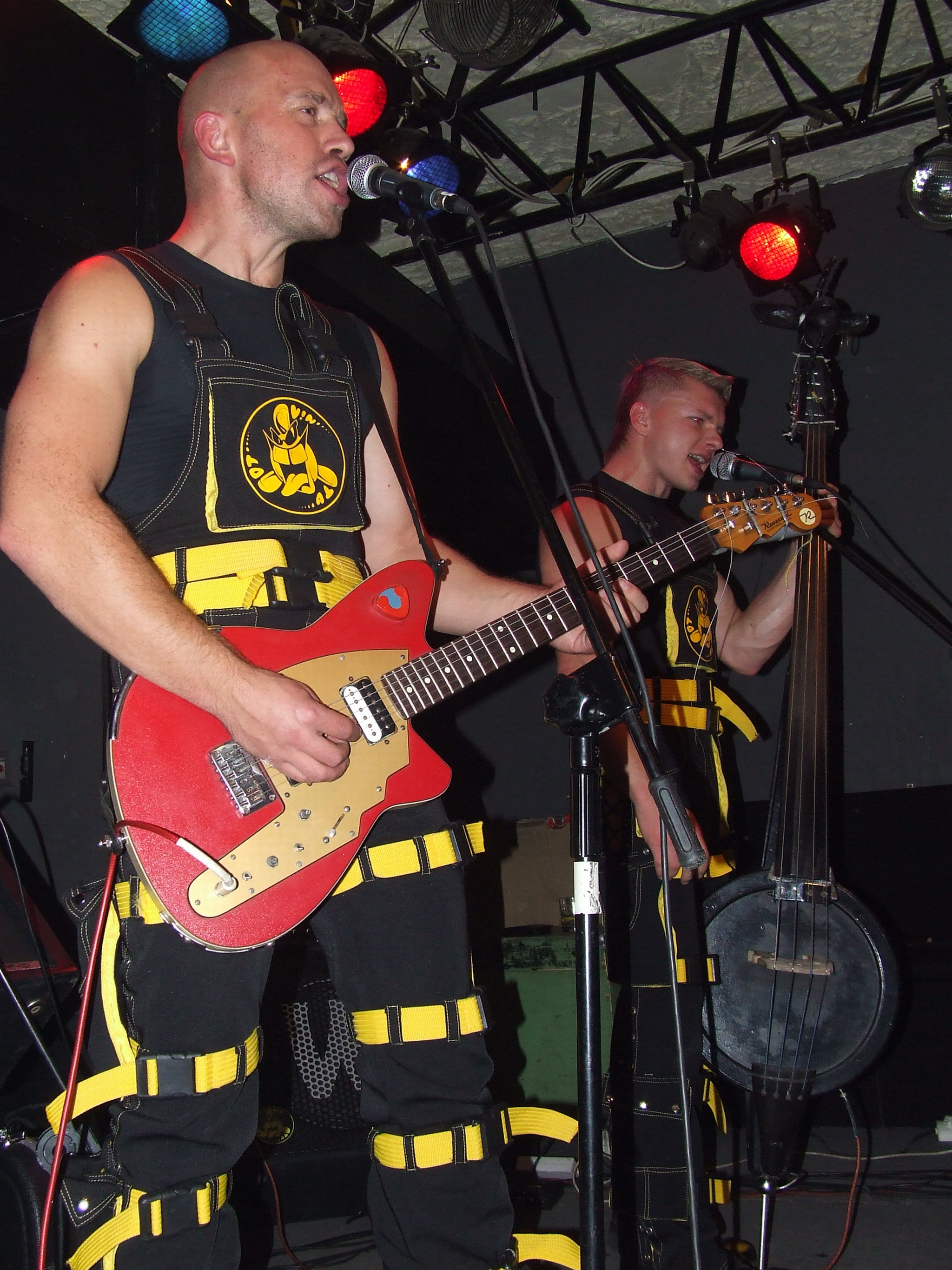 Ot Vinta! Concert in Wrocław, Poland.